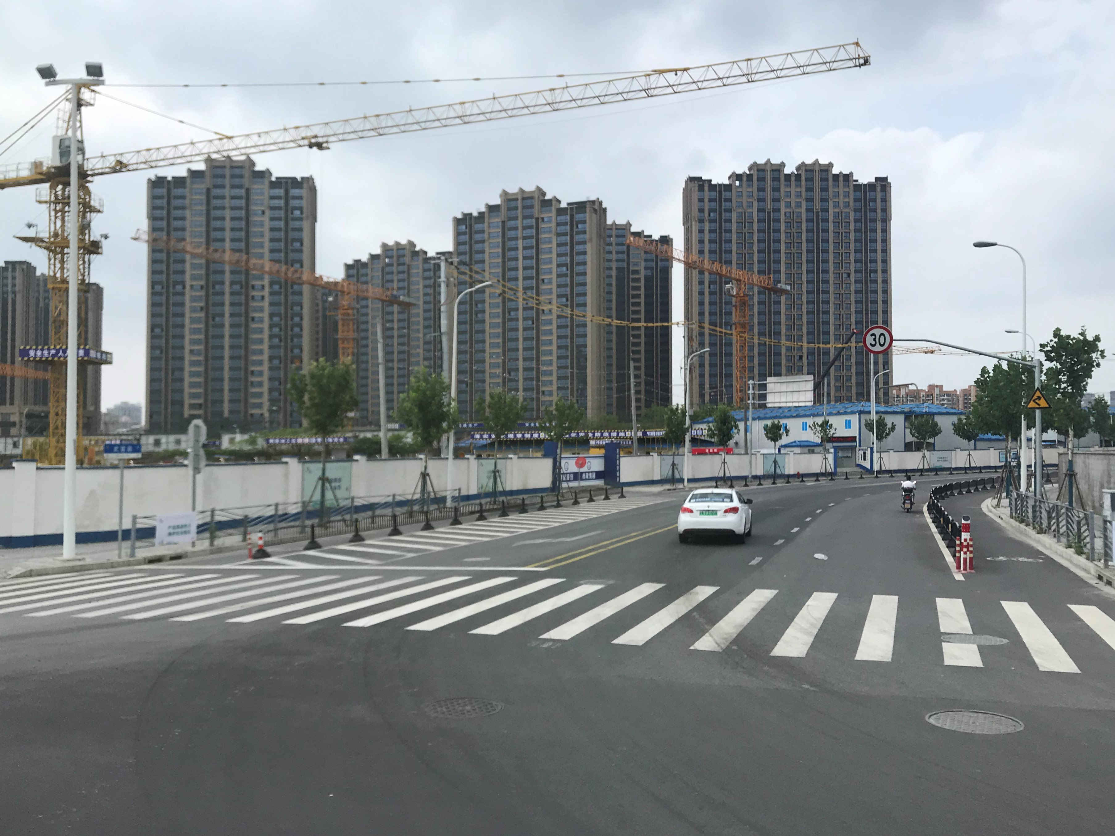 201907 Shanghai Railway Employee Apartment in Xinlonghua